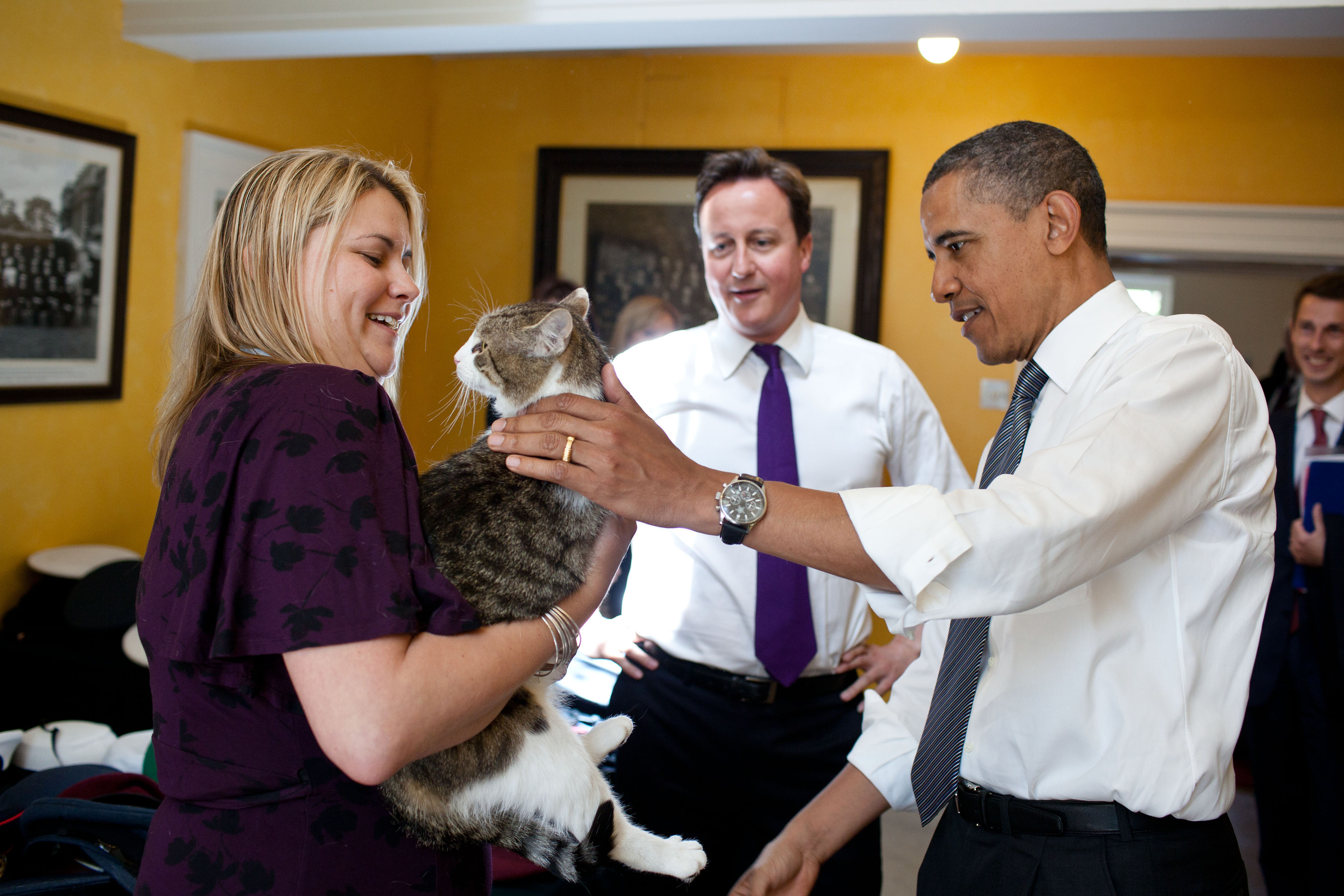 British Prime Minister David Cameron introduces President Barack Obama to Larry the cat Chief Mouser to the Cabinet Office at 10 Downing Street in London, England, May 25, 2011. (Official White House Photo by Pete Souza)